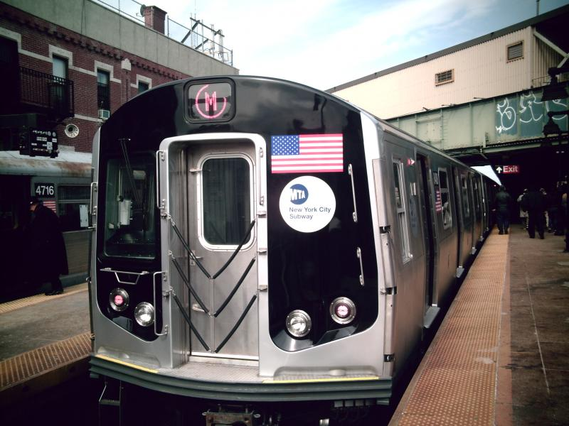 M shuttle train of R160As at its southern terminal of Myrtle Avenue-Broadway